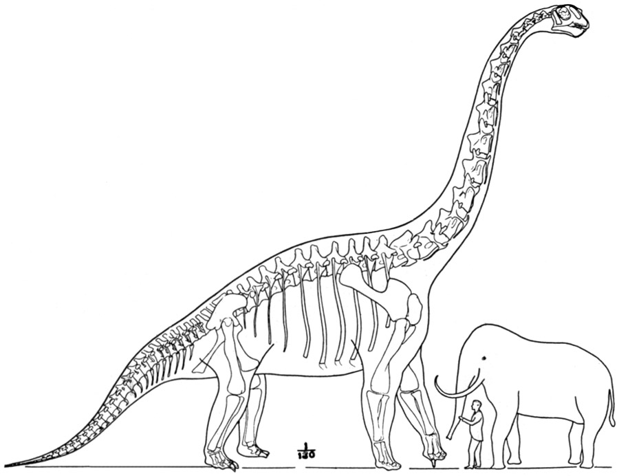 The Largest Known Dinosaur. Sketch reconstruction of Brachiosaurus, from the specimens in the Field Museum in Chicago, and the Natural History Museum in Berlin.